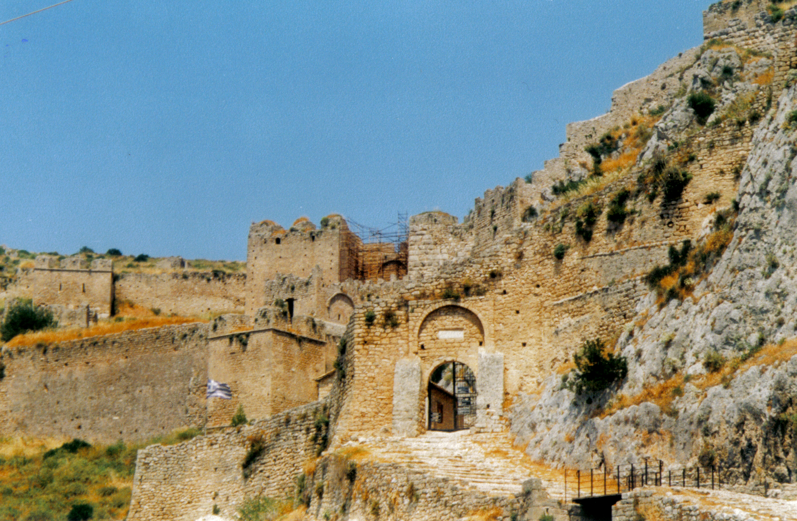 The system of gates at the fortress Acrocorinth near Corinth, Greece.